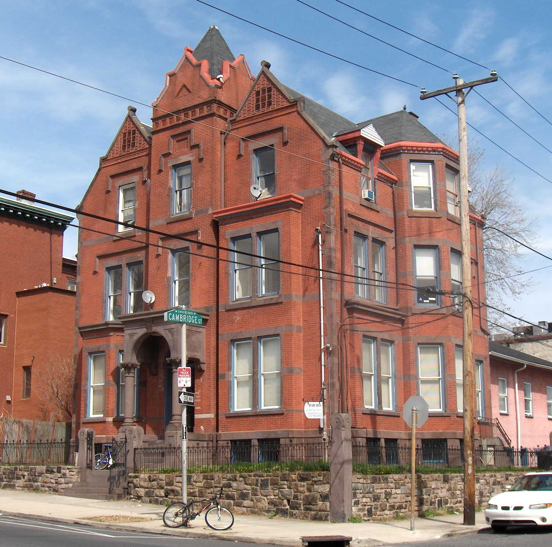 Louis Bergdoll house, Fairmount, 929 North 29th Street, Philadelphia, PA 19130